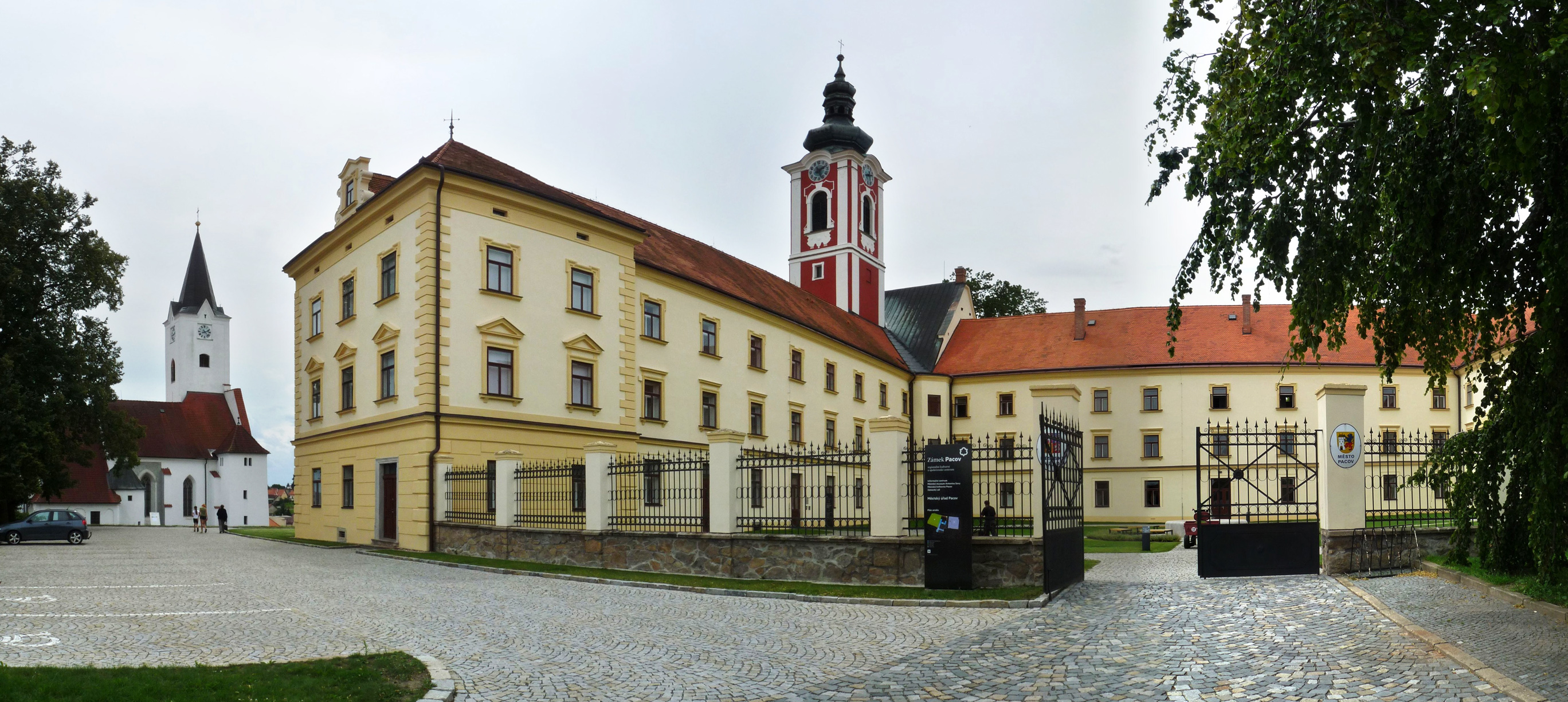 Chateau in the town of Pacov, Pelhřimov District, Czech Republic, with the Saint Wenceslas Church tower at the back.